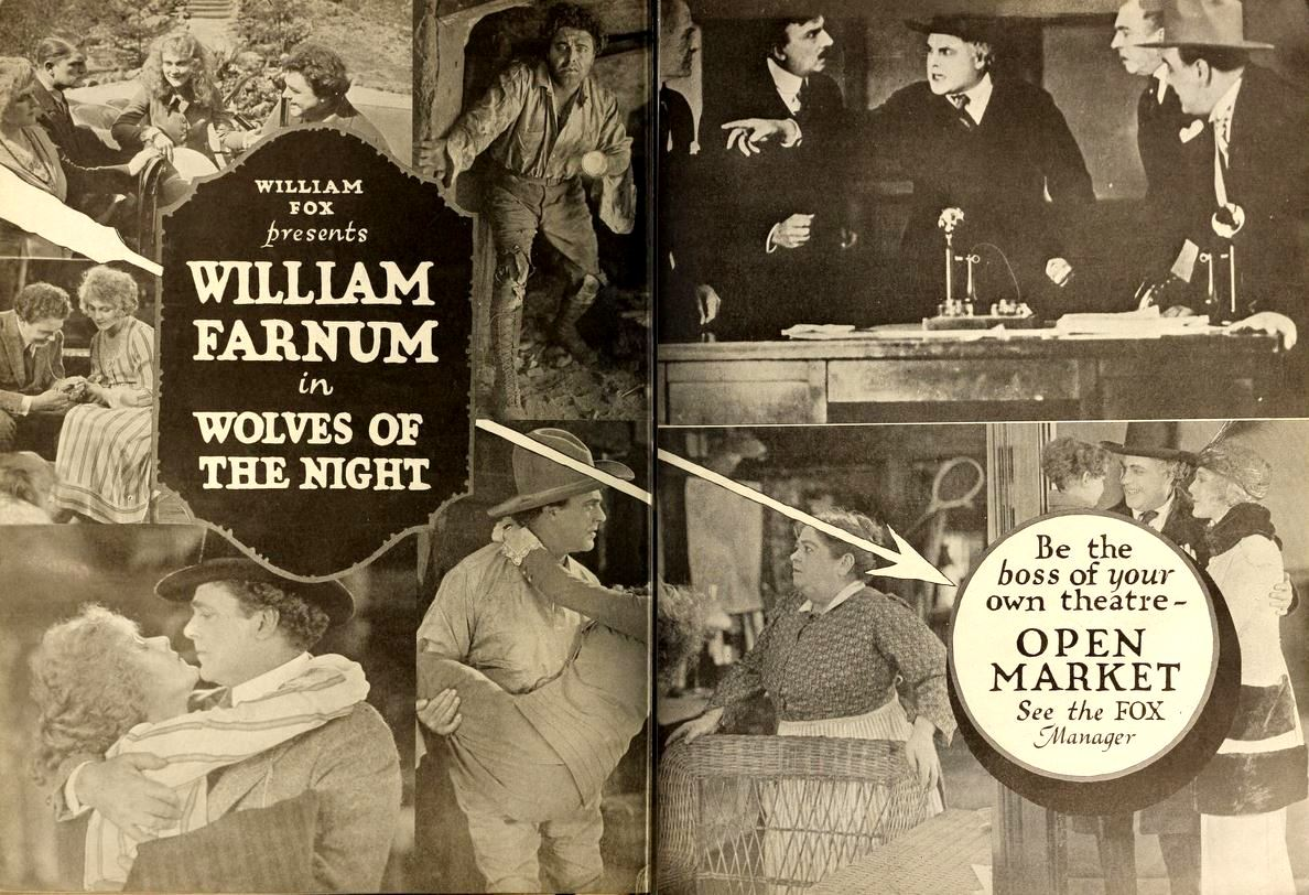 Ad with stills from the American film Wolves of the Night (1919) with William Farnum, pages 1478 and 1470 of the August 23, 1919 Motion Picture News.